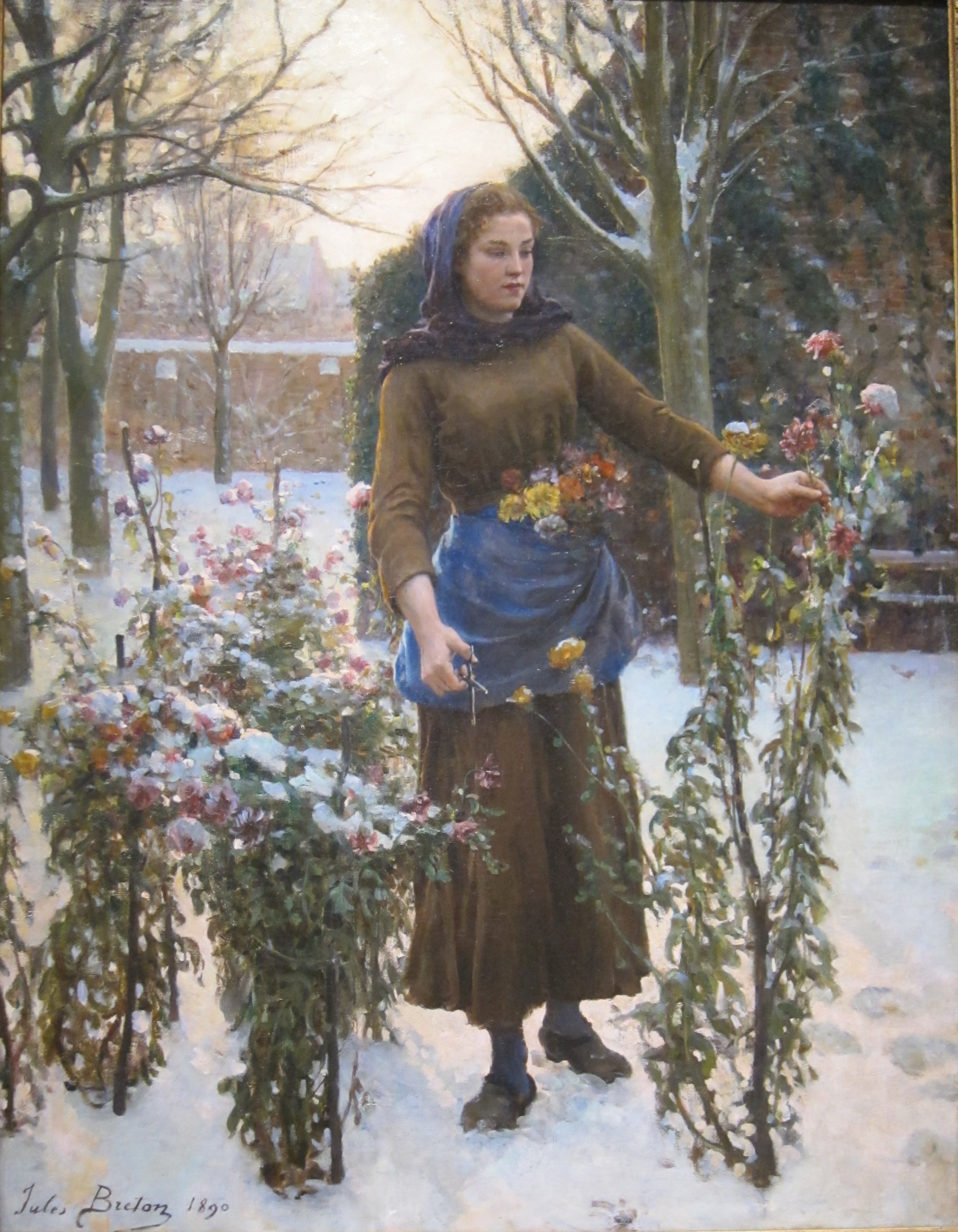 Last Flowers